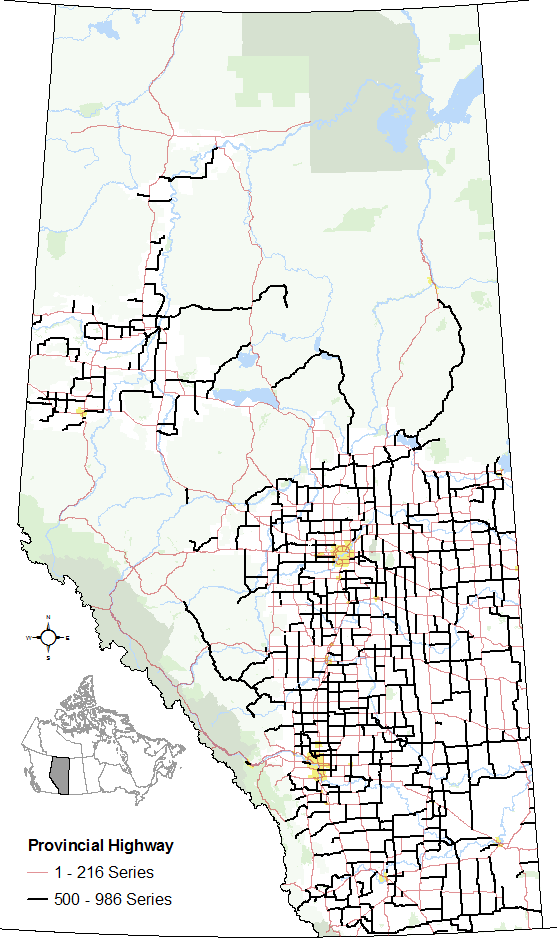 The alignments of the 500 - 986 series of highways within Alberta's provincial highway system within other base features including hydrography, national/provincial parks, cities and city equivalents, and the provincial green and white zones.